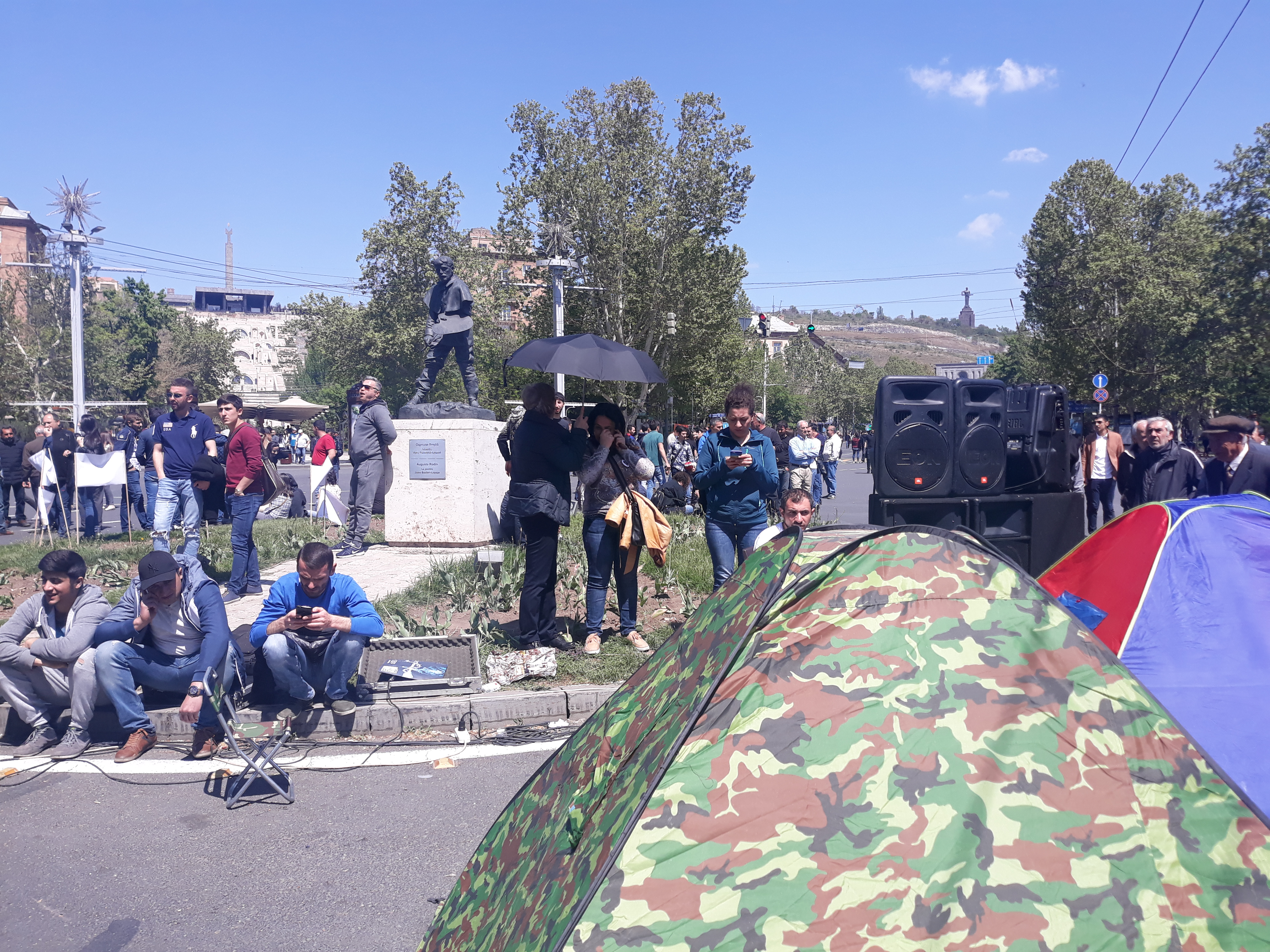 Protests against Serzh Sargsyan